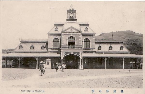 A post card of Kiirun (also known as Keelung) Railway Station, Taiwan, Japan